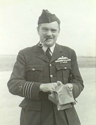 AWM caption: "1943-02-26. Twenty years in RAAF Blue - an informal shot of Group Captain F.W.F. Lukis, promoted recently to take charge of an "Aroa" from command of one of Australia's largest airforce stations. IN 1914 to 1918, he served in No. 1 Squadron of the famed Australian Flying Corp. In 1941 he completed 20 years of service in "RAAF Blue". (Negative by Copy Neg.)." N.B. Date is questionable as Lukis was supposedly Air Commodore in 1943, not Group Captain as seen here - which would make likely correct date c. 1940.